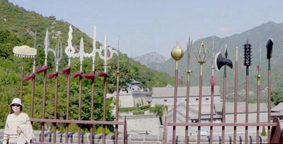 An edit of Image:WpGreatWallReproWeapons.jpg Non Anamorphed image for movie projector page